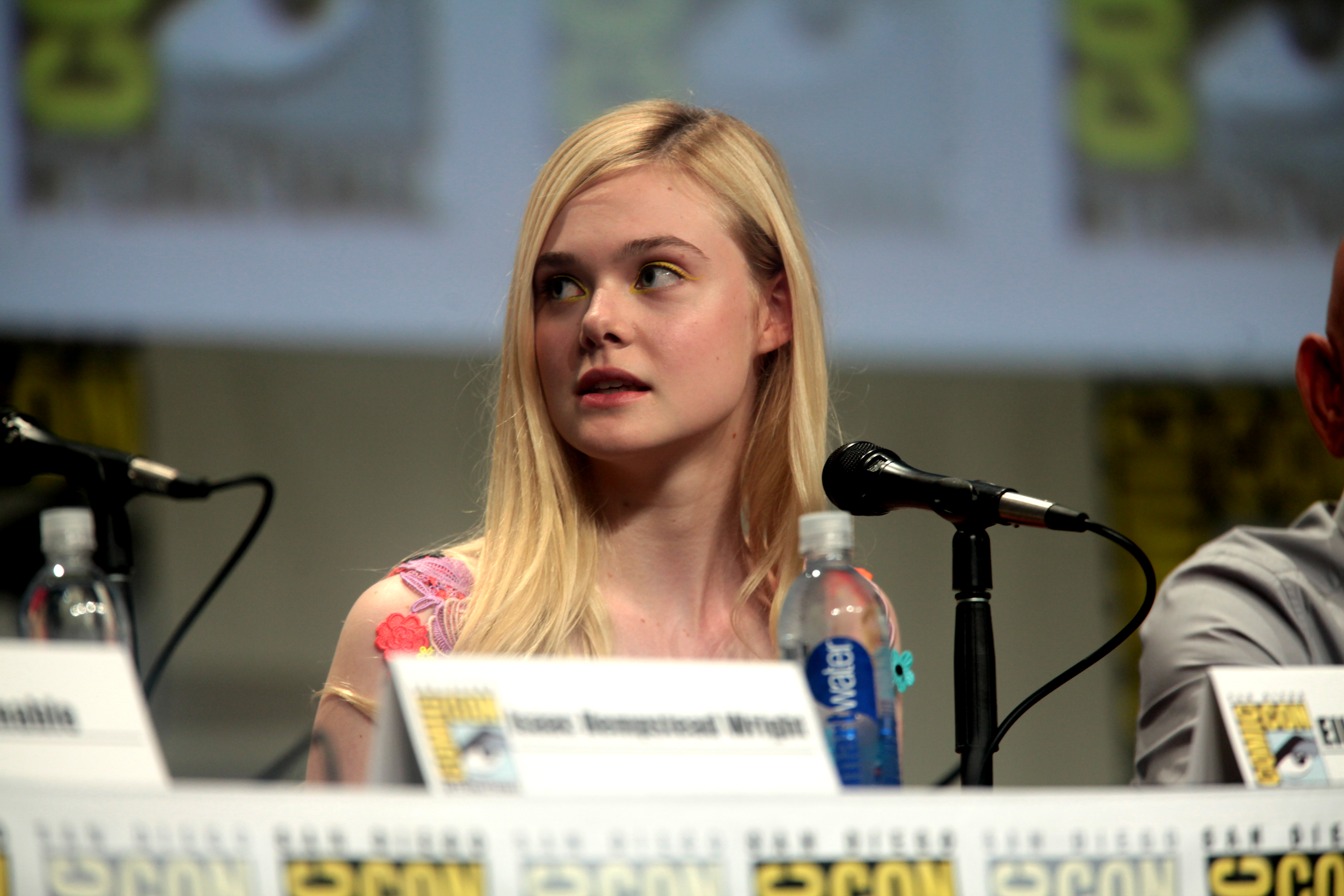 Elle Fanning speaking at the 2014 San Diego Comic Con International, for "The Boxtrolls", at the San Diego Convention Center in San Diego, California.